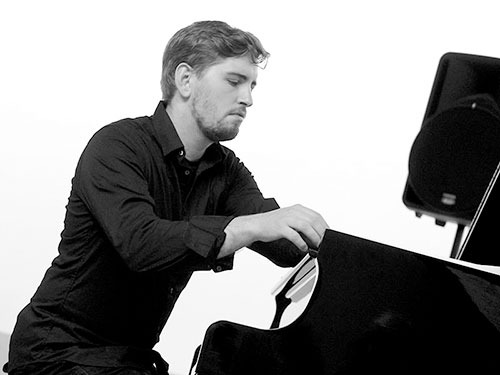 Pablo Held performing in Aarhus, Denmark (2014)